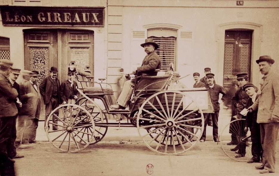 Émile Roger, no. 85, came in fourteenth in the 1894 Paris–Rouen race, in a 2-4 seat, petrol-powered car. "Carriages without horses" competition organized by Le Petit Journal, 22 July 1894. Photographs by R. Girard. (This car, noted as Benz-engined, was actually an imported Benz Vis-à-Vis model. Roger was Benz's licensed reseller in France but wouldn't mention that his automobiles were actually Benz-built.)